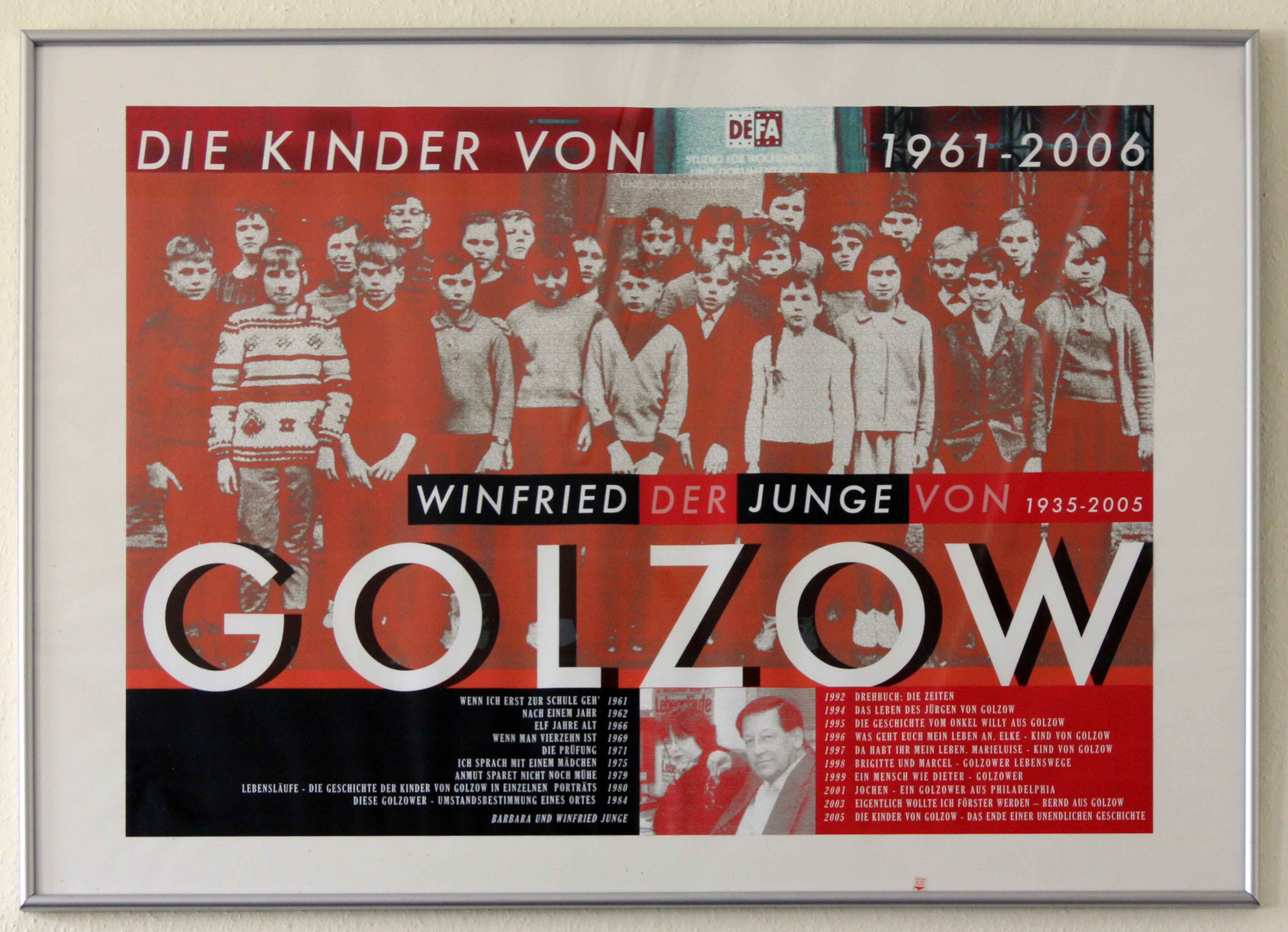 Memorial plaque, Die Kinder von Golzow, Hauptstraße 16, Golzow (Oderbruch), Germany